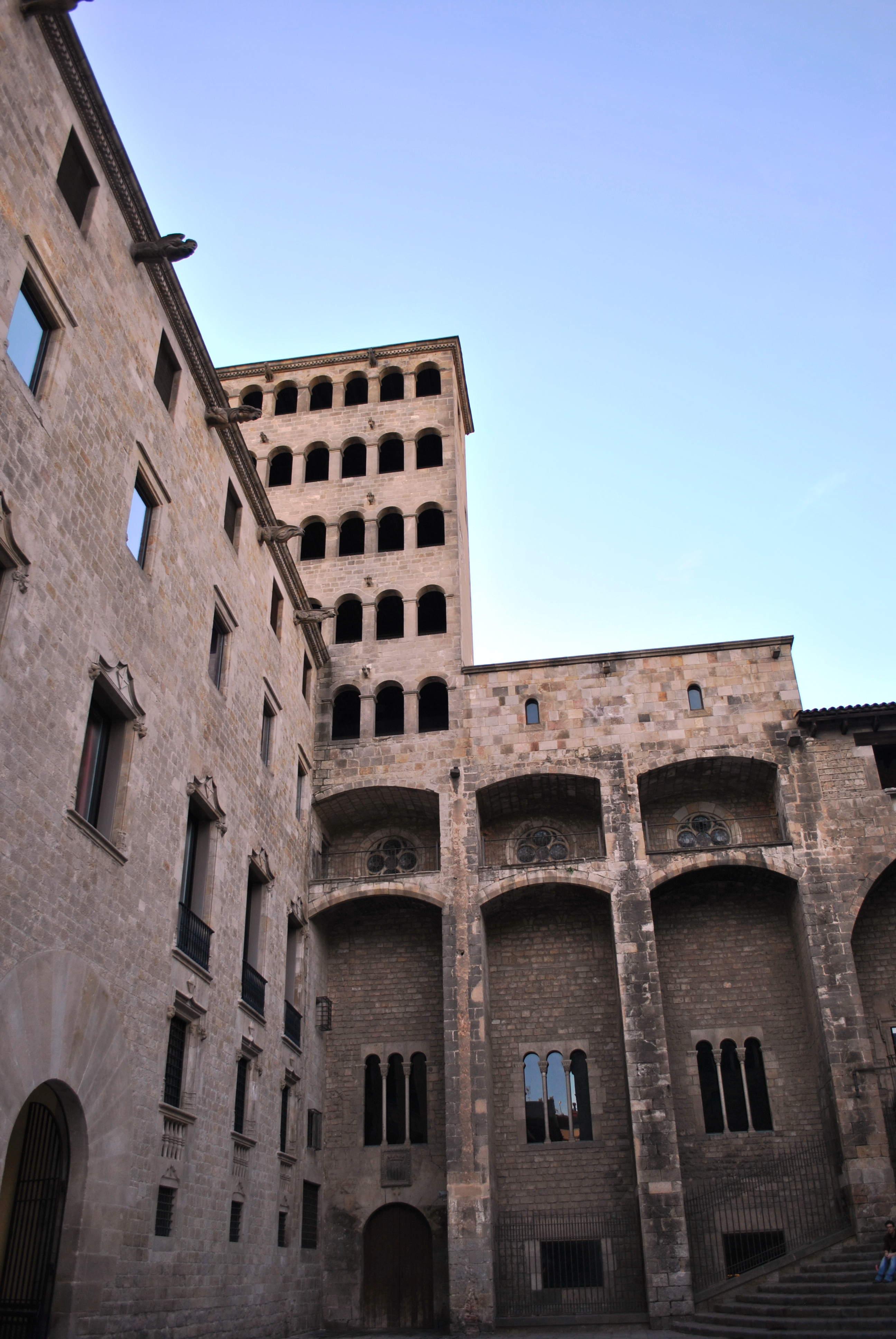 Plaça del Rei